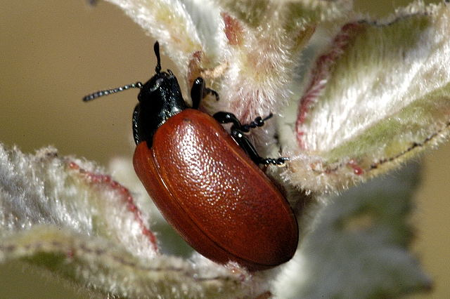 Picture taken in Commanster, Belgian High Ardennes . Species: Chrysomela populi